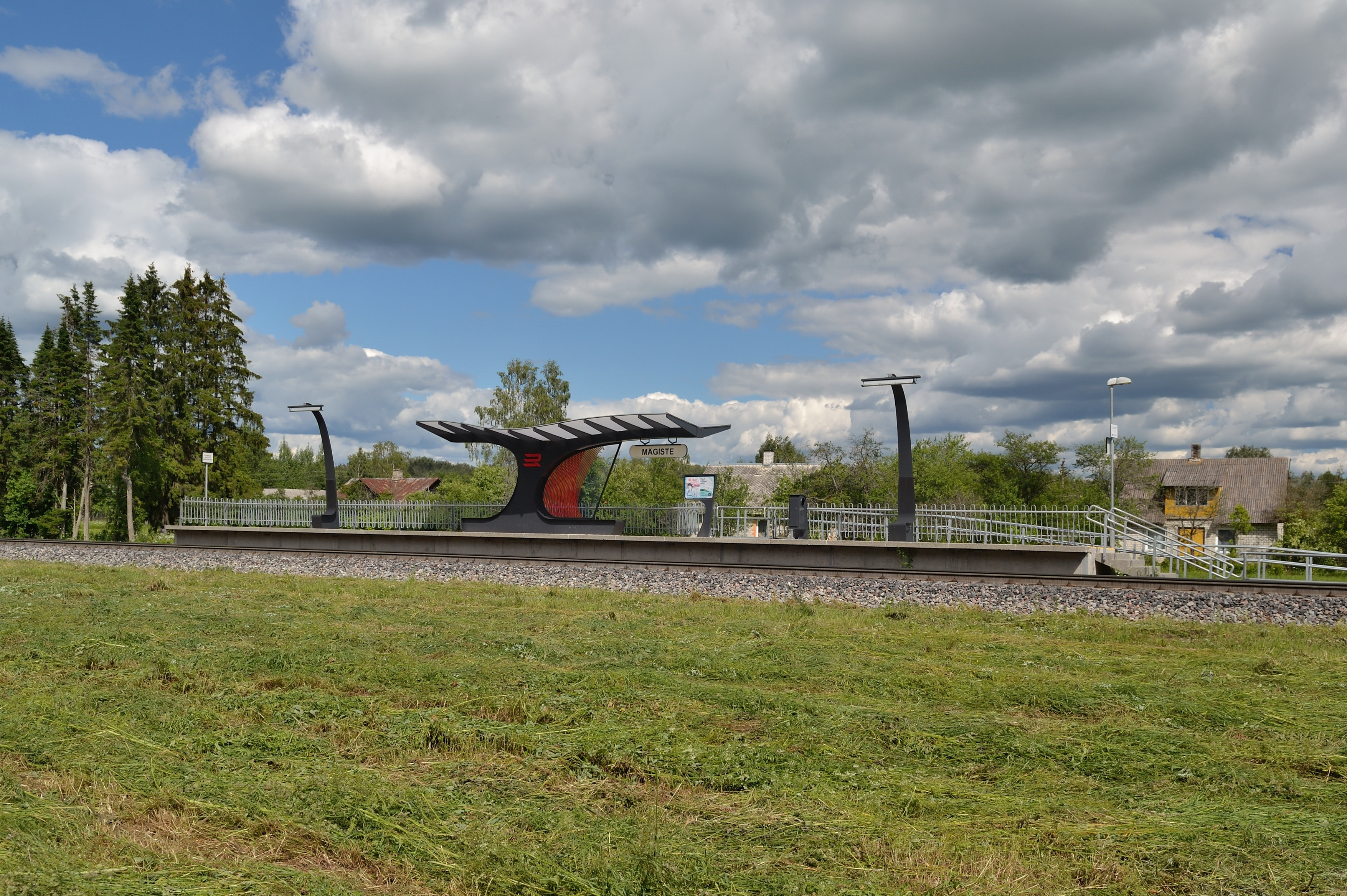 Mägiste train stop